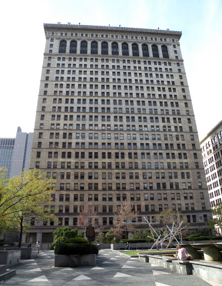 Picture of the Oliver Building (named for Henry W. Oliver), located at Smithfield Street and Oliver Avenue in Downtown Pittsburgh, Pennsylvania, on September 18, 2010. Built in 1910, architects D. H. Burnham & Company, the building is on the List of Pittsburgh History and Landmarks Foundation Historic Landmarks. The picture was taken in Mellon Square.